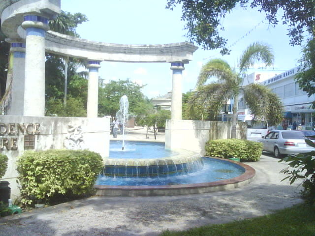 Fountain at Fairchild Street, Independence Square, Bridgetown, Barbados.